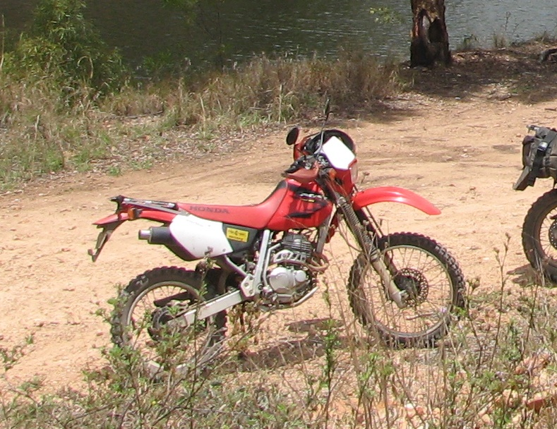 Honda XR 250R, 2004 model. Taken in north east QLD, Australia by Abhi Beckert.